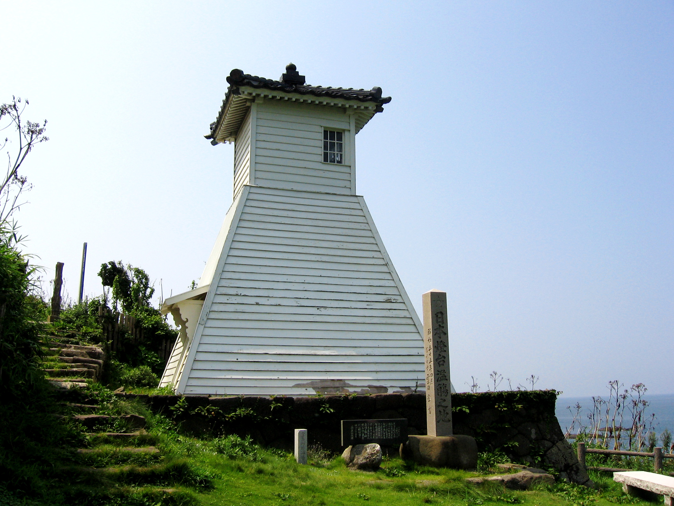 Former Fukura Lighthouse